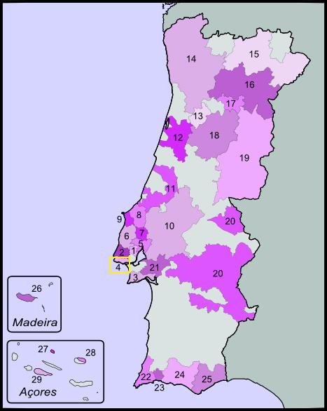 Wine regions of Portugal classified as QWpsr (DOC & IPR) in 2009. * Leyenda/key: 1. Bucelas DOC 2. Colares DOC 3. Setúbal DOC 4. Carcavelos DOC 5. Alenquer DOC 6. Torres Vedras DOC 7. Arruda DOC 8. Óbidos DOC 9. Lourinhã DOC 10. Ribatejo DOC 11. Encostas de Aire DOC 12. Bairrada DOC 13. Lafões IPR 14. Vinho Verde DOC 15. Trás-os-Montes DO 16. Porto DOC & Douro DOC 17. Távora-Varosa DOC 18. Dão DOC 19. Beira Interior DOC 20. Alentejo DOC 21. Palmela DOC 22. Lagos DOC 23. Portimão DOC 24. Lagoa DOC 25. Tavira DOC 26. Madeira DOC & Madeirense DO 27. Graciosa IPR 28. Biscoitos IPR 29. Pico IPR